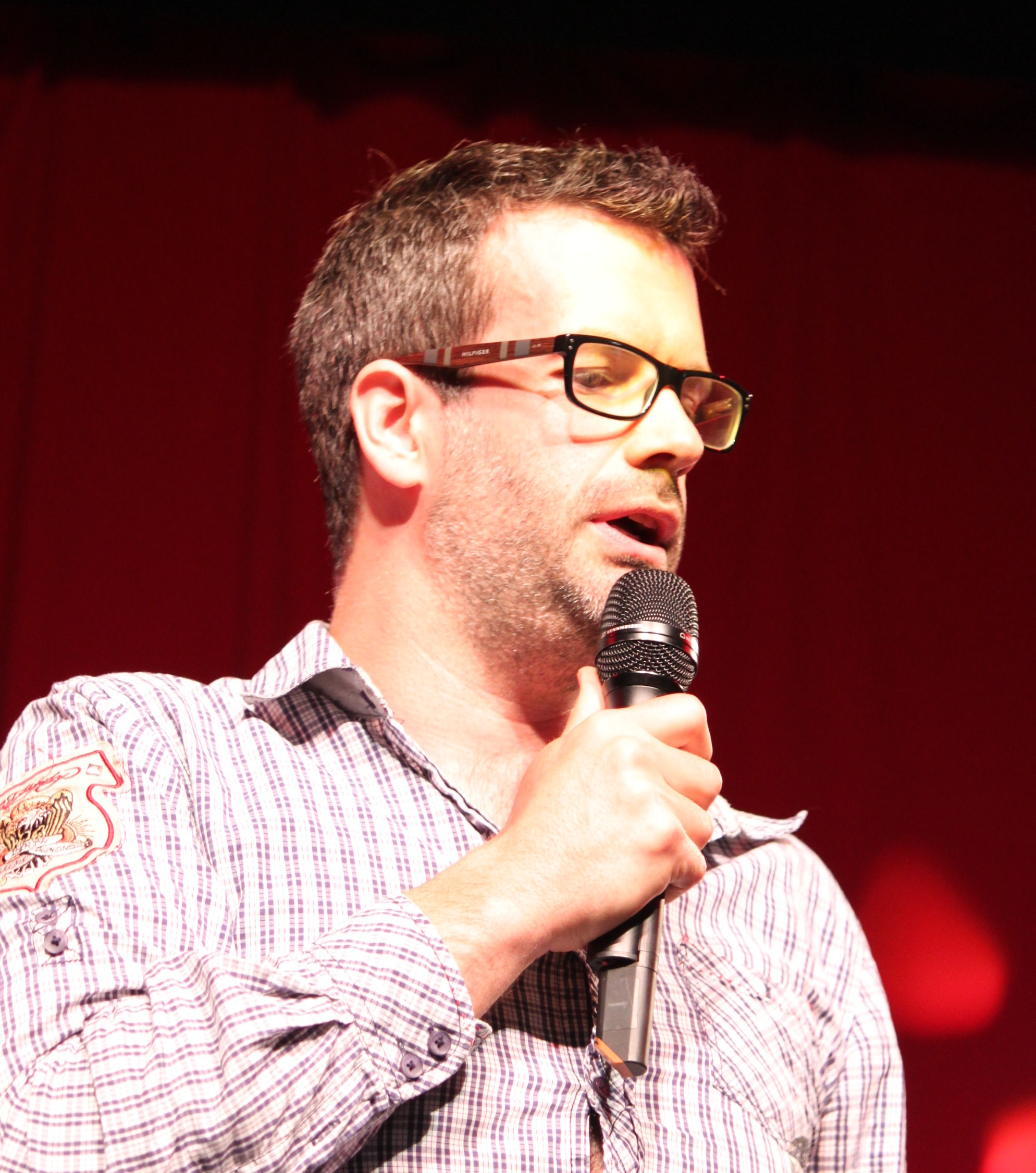 Marcus Brigstocke at Glastonbiury Festival June 2015